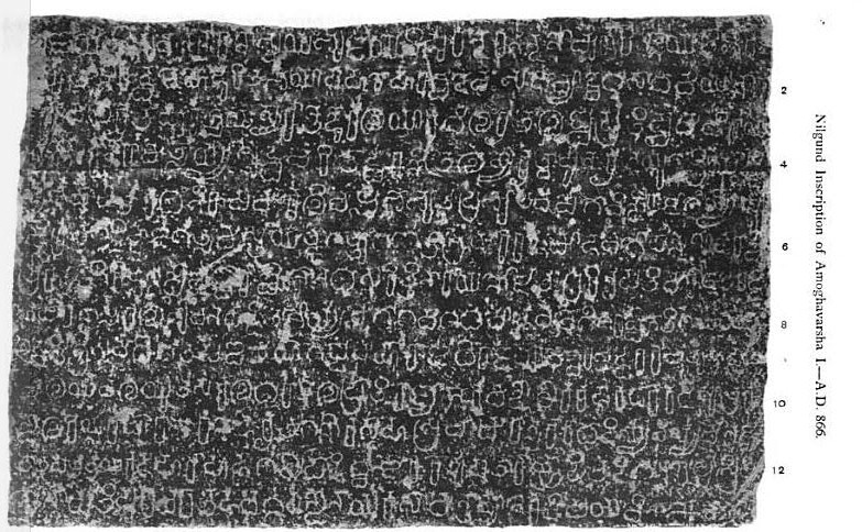 Nilgund is a village in the Gadag district (part of old Dharwar district) of modern Karnataka state, India. The inscription is in the old Kannada script. Lines 1-8 and 30-35 are in Sanskrit verse, and lines 9-29 are in Kannada language prose. Ref source: Epigraphia Indica and Record of the Archæological Survey of India, Volume 6, pp.98-108